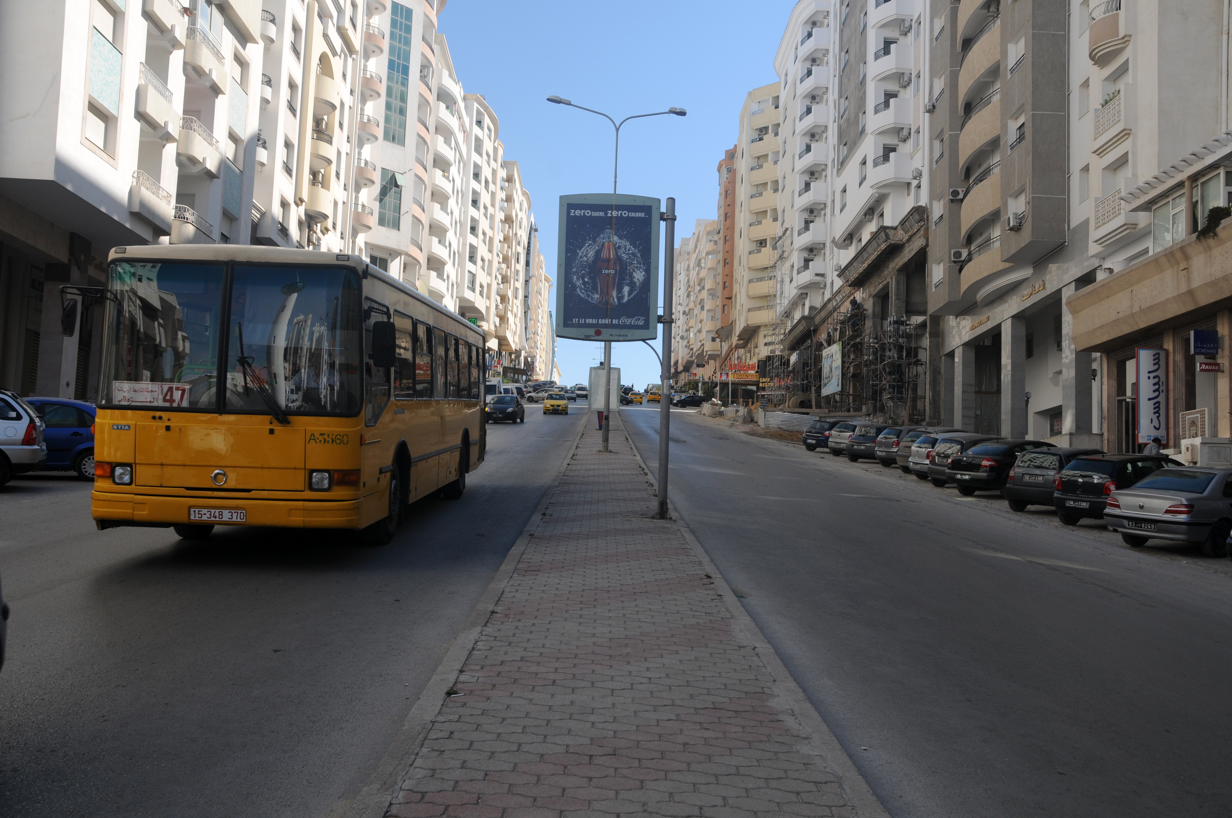 Irisbus bus (#A3560) in Tunis, Tunisia.